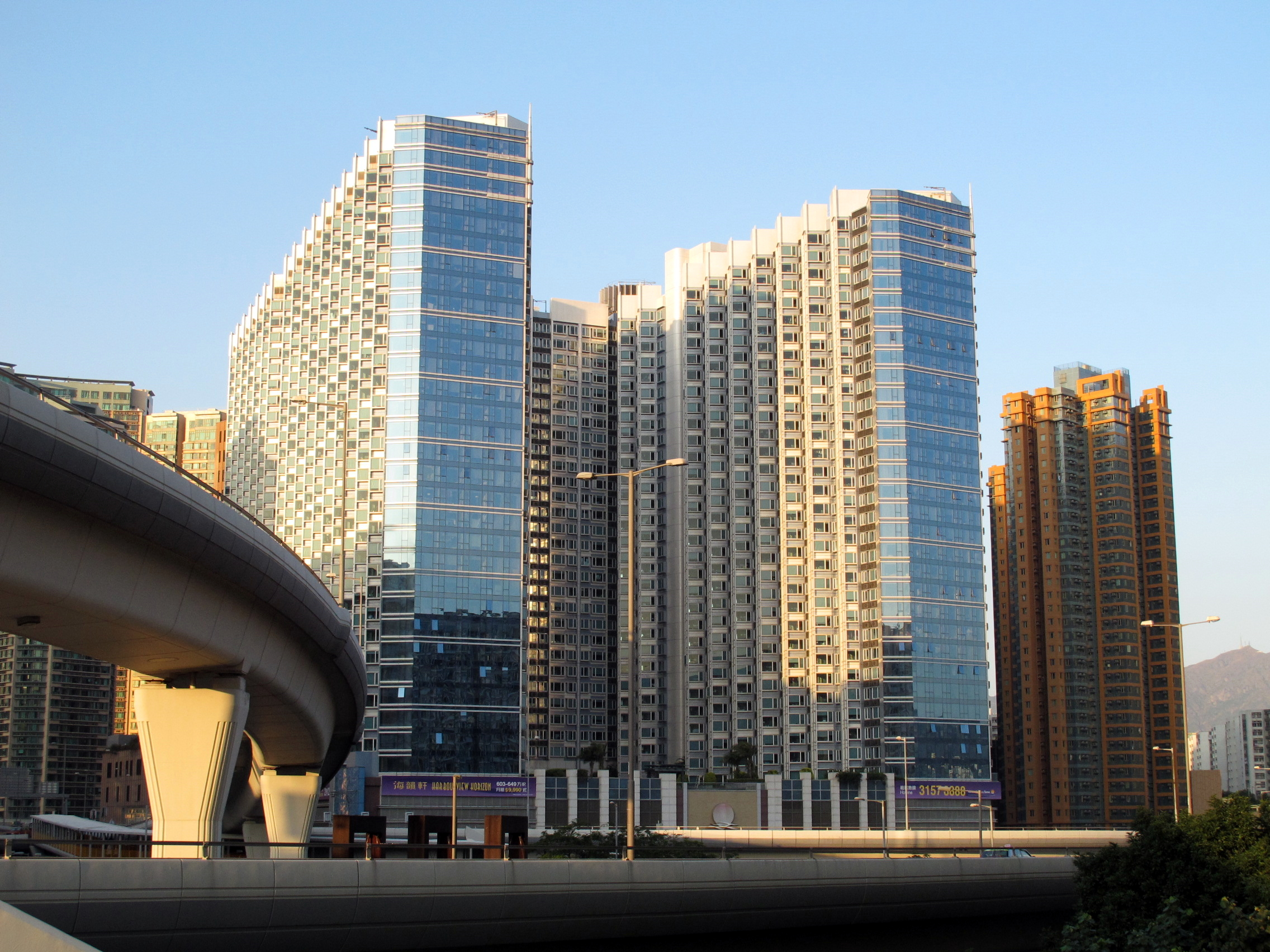 Harbourview Horizon, Hung Hom